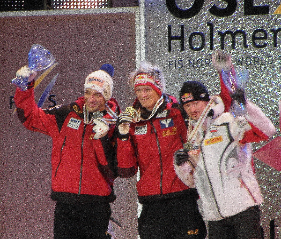 Podium of the skijumping Normal Hill at the FIS Nordic World Ski Championships 2011 in Oslo. Andreas Kofler (l), Thomas Morgenstern (m) and Adam Małysz (r)